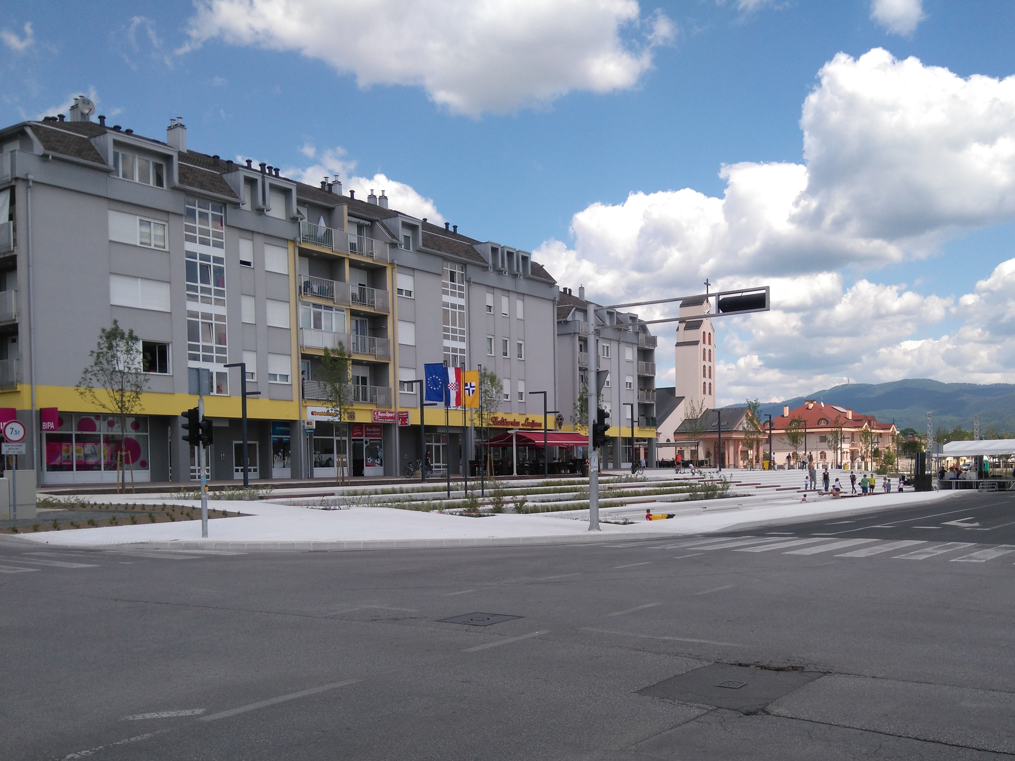 Trg Franje Tuđmana Zaprešić